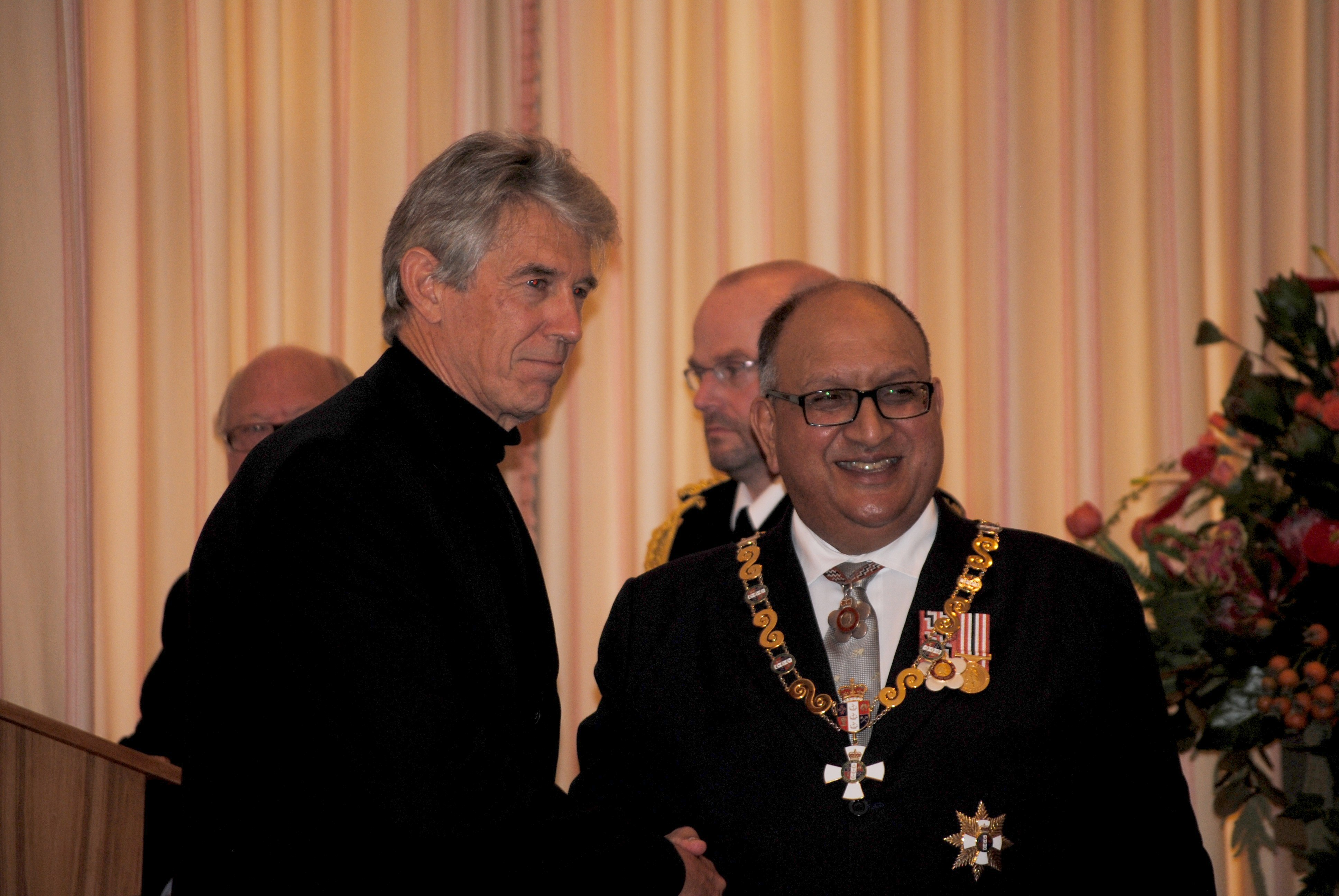 Peter Barrett (left), after receiving the New Zealand Antarctic Medal, for services to Antarctic science, from the governor-general, Sir Anand Satyanand, on 28 April 2010